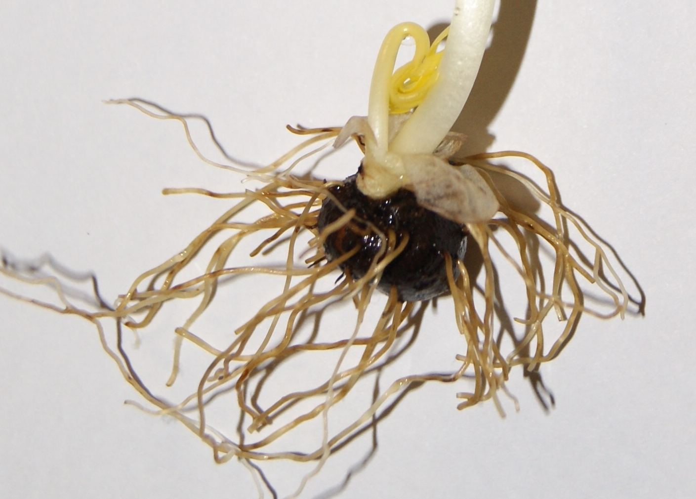 Eranthis hyemalis